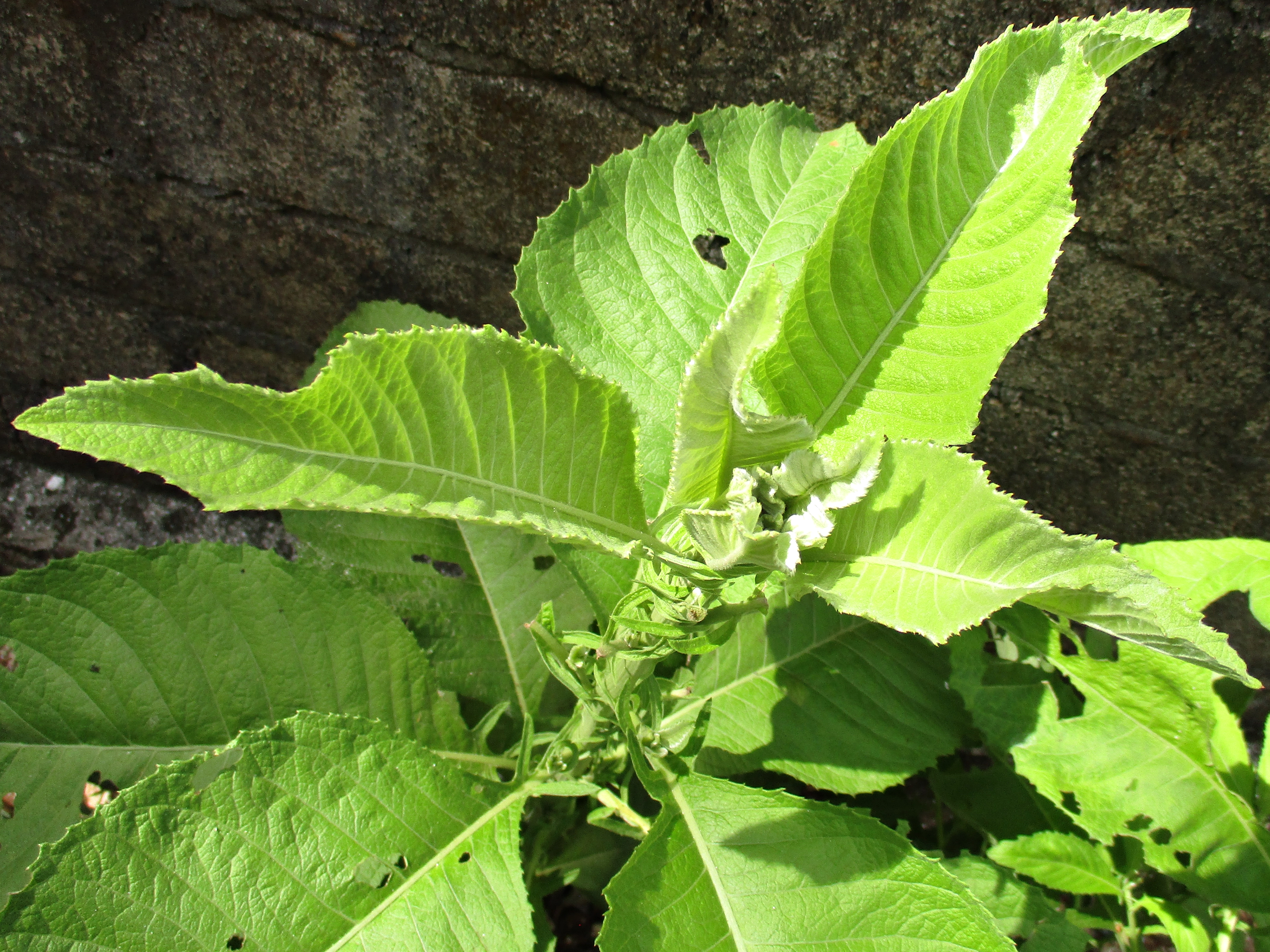 leaves of the sambong plant (Blumea balsamifera), cultivated for medicinal use, northern Buton Island, Southeast Sulawesi, Indonesia